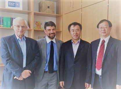 Senior Assoicate Dean Jerome Bon, Rector Andreas Kaplan, Deputy Dean Chen Song, Senior Deputy Dean Jin Fuan